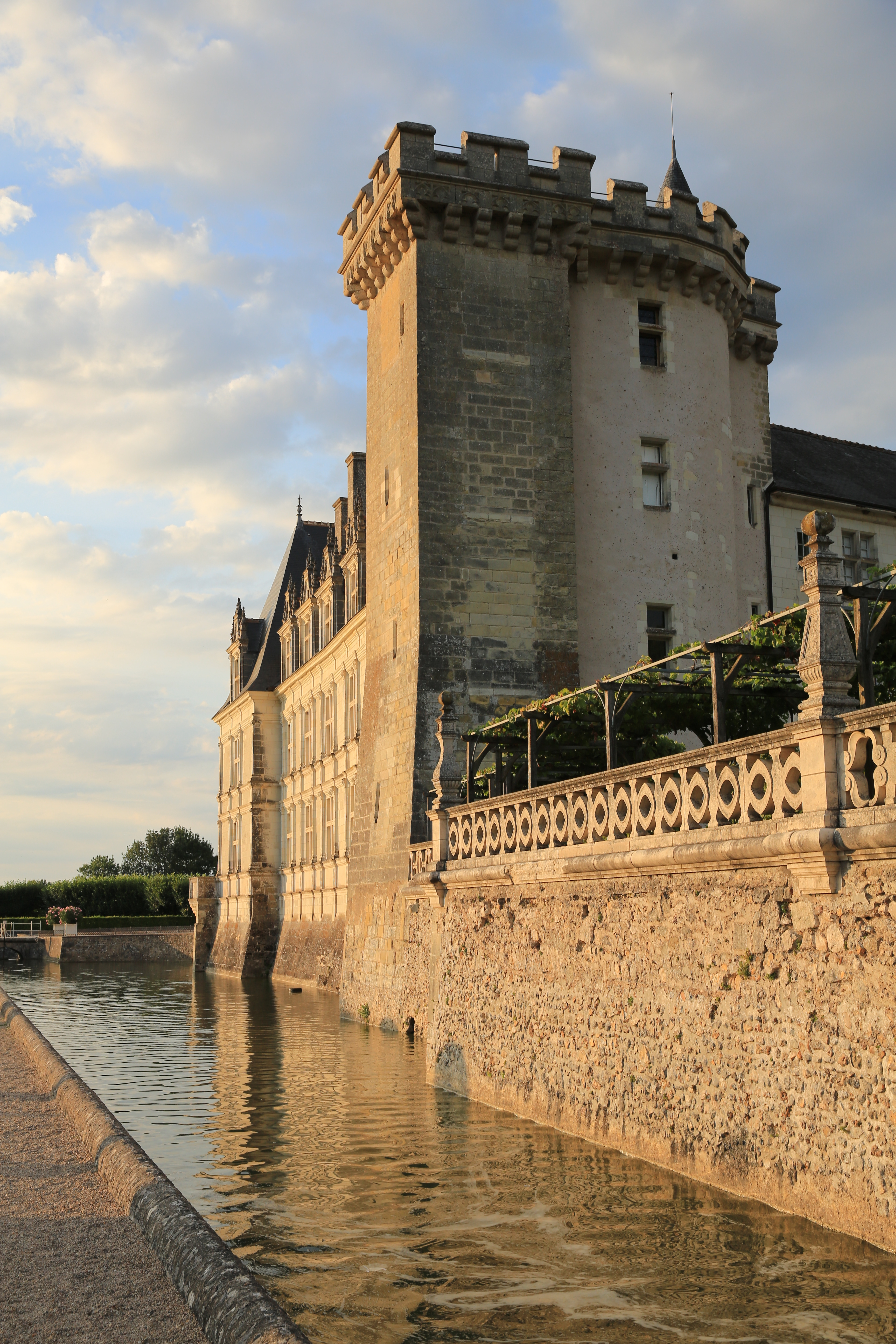 Castle of Villandry, tower and ditch.